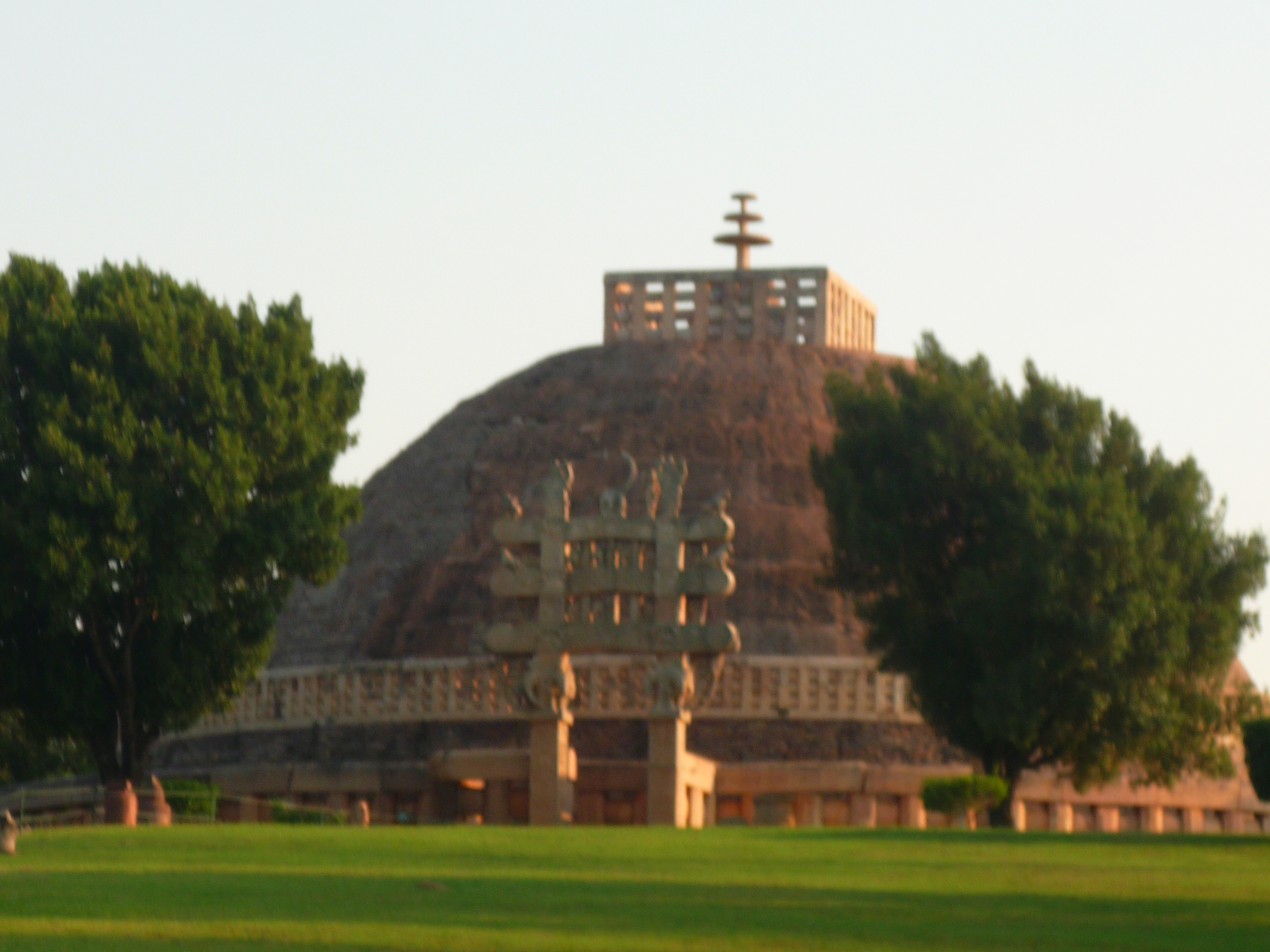 Buddhist Monuments